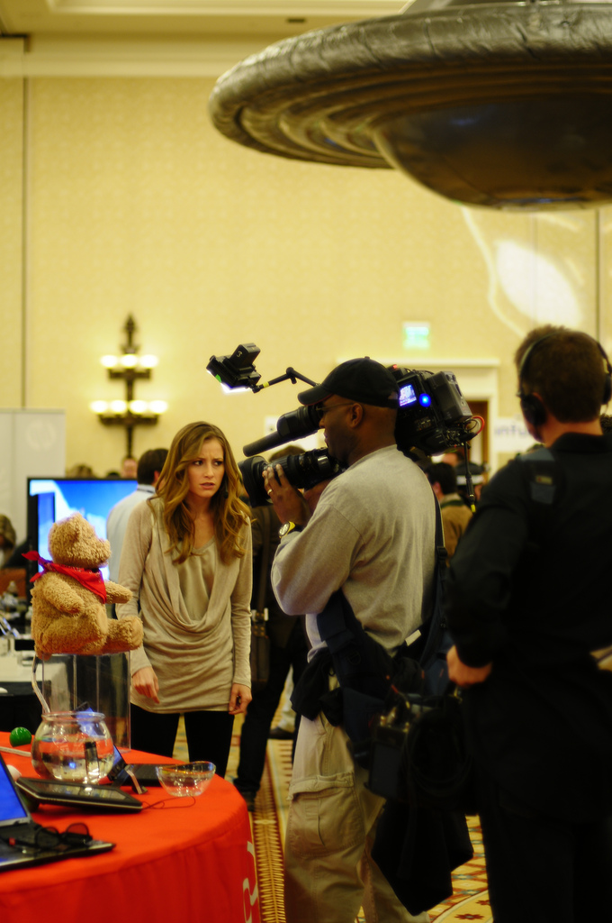 Candace Bailey is scared by a moving bear while filming Attack of the Show!.'